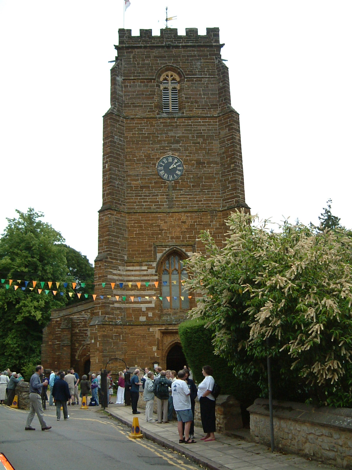 St Lawrence's church Towcester. Taken by James@hopgrove, June 2005.